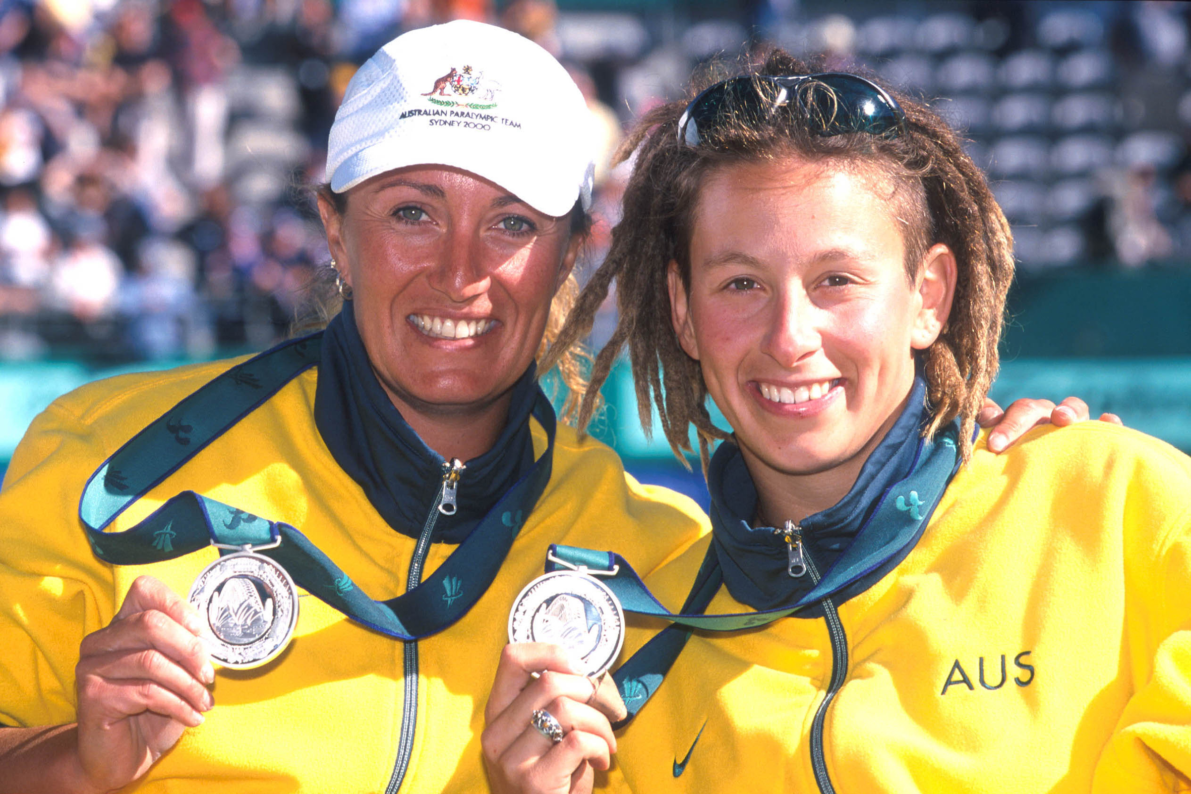 Australian wheelchair tennis players Daniela Di Toro and Branka Pupovac smiling as they show their gold medals, won at the Women's Doubles 2000 Sydney Paralympics